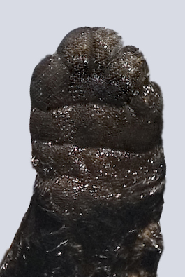 forequarter of sea otter